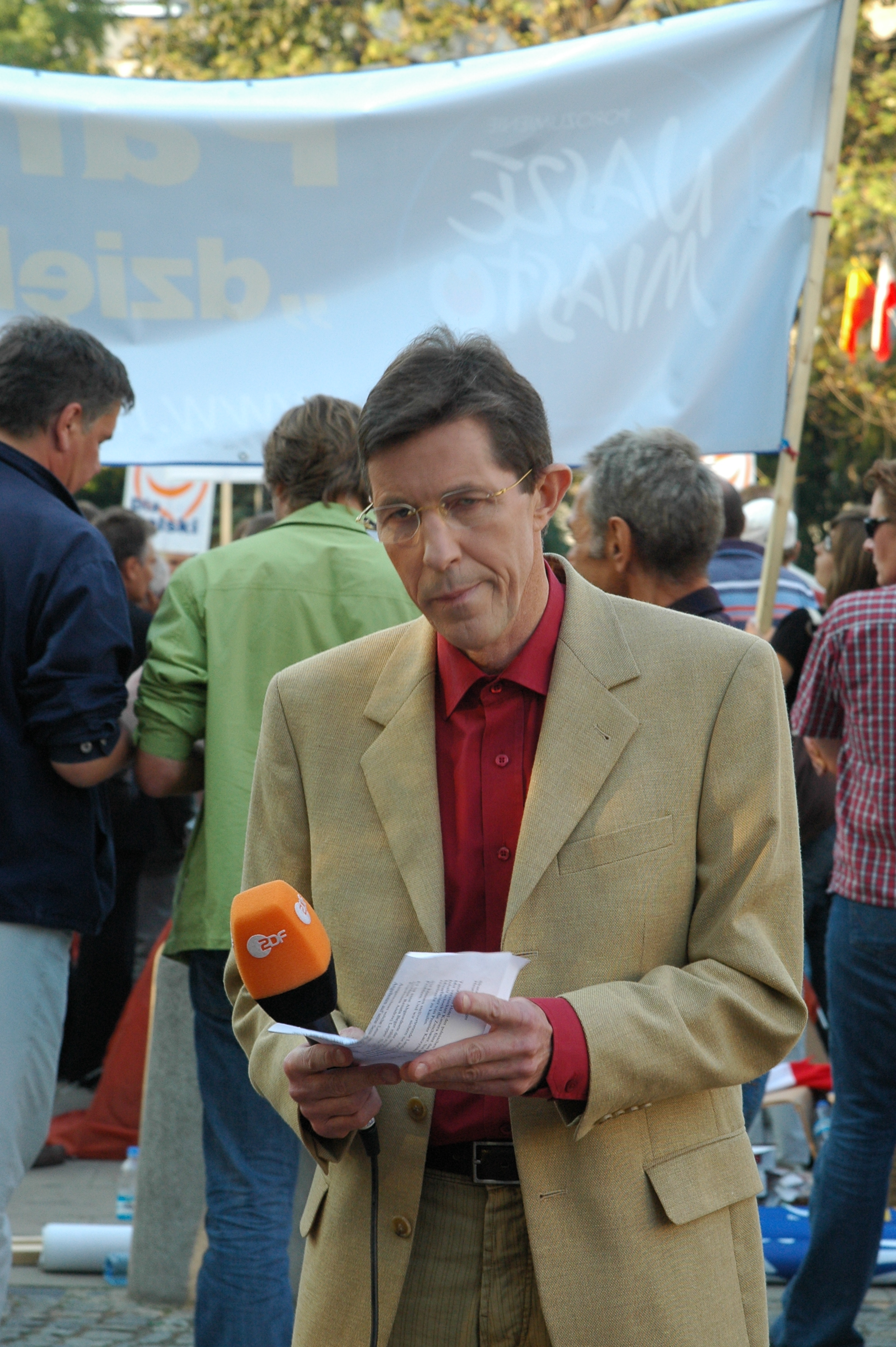 Dietmar Barsig, correspondent of the ZDF station in Poland